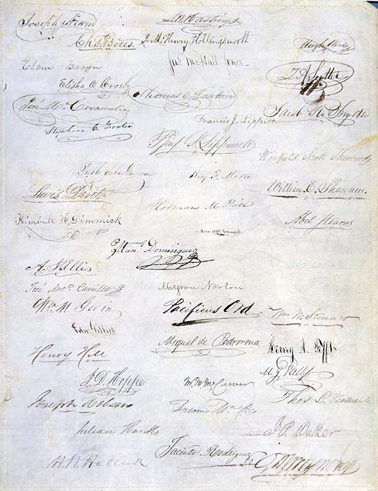 Signature page from the first constitution for the state of California, October 12, 1849